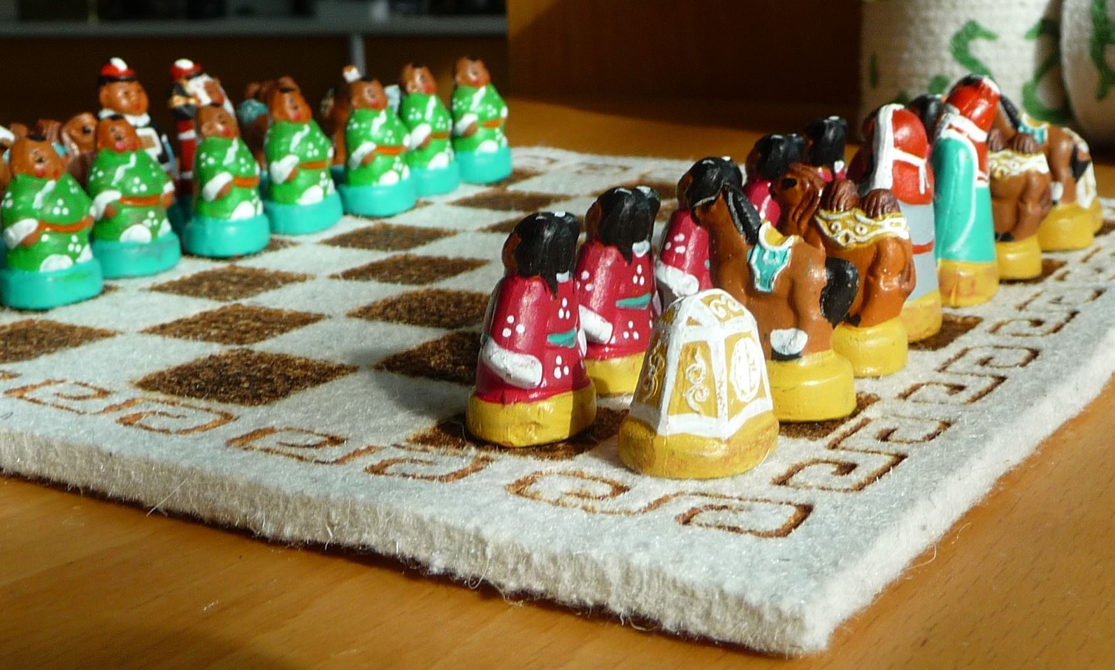 Mongolian chess (шатар shatar) of Sharavdorj, Otgonlhagva (Шаравдоржийн Отгонлхагва)